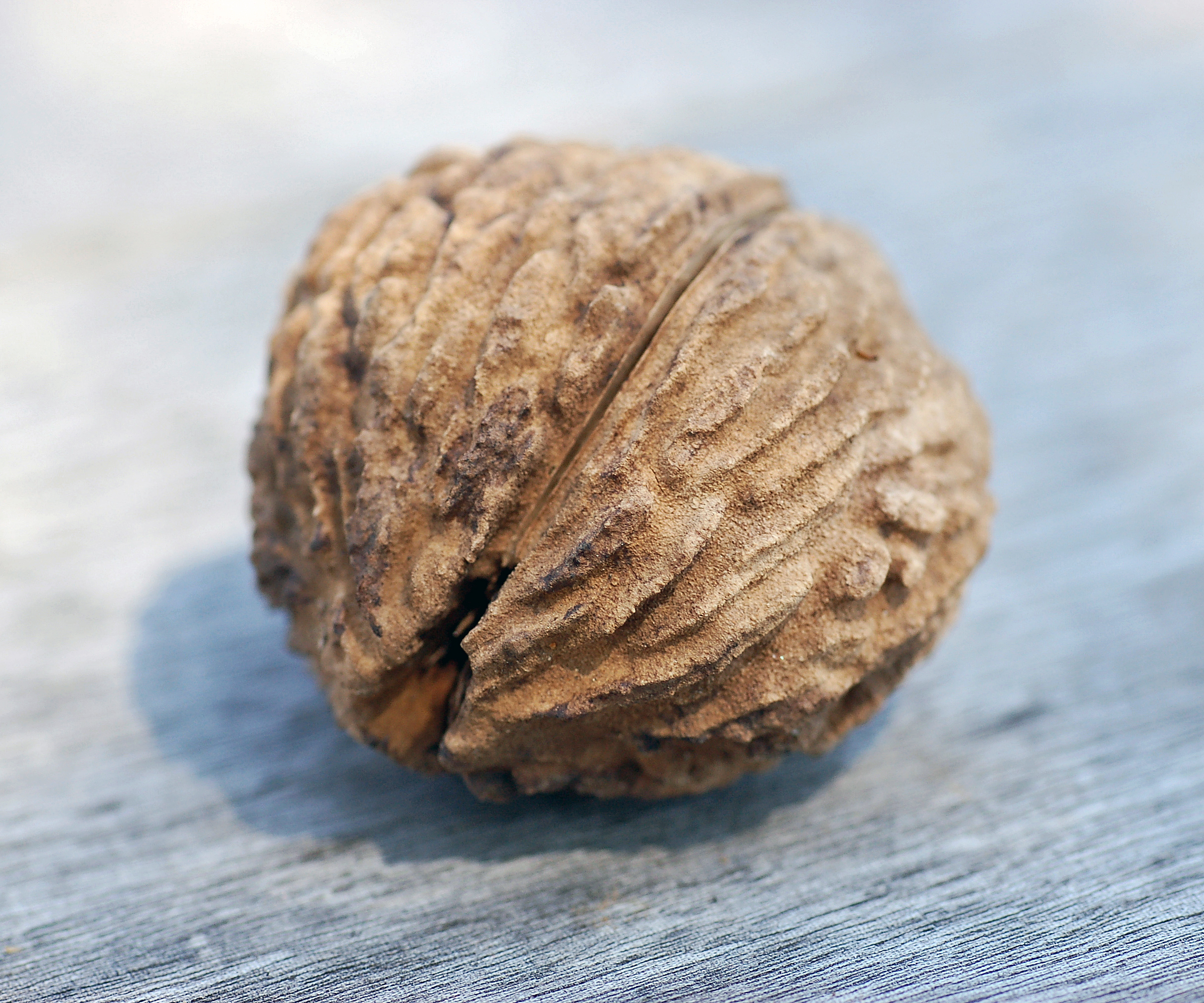 A picture of a nut of the Black Walnuten (Juglans nigra en ) tree. Photo taken at the Chanticleer Garden where it was identified. The tree was located near the Teacup Garden.